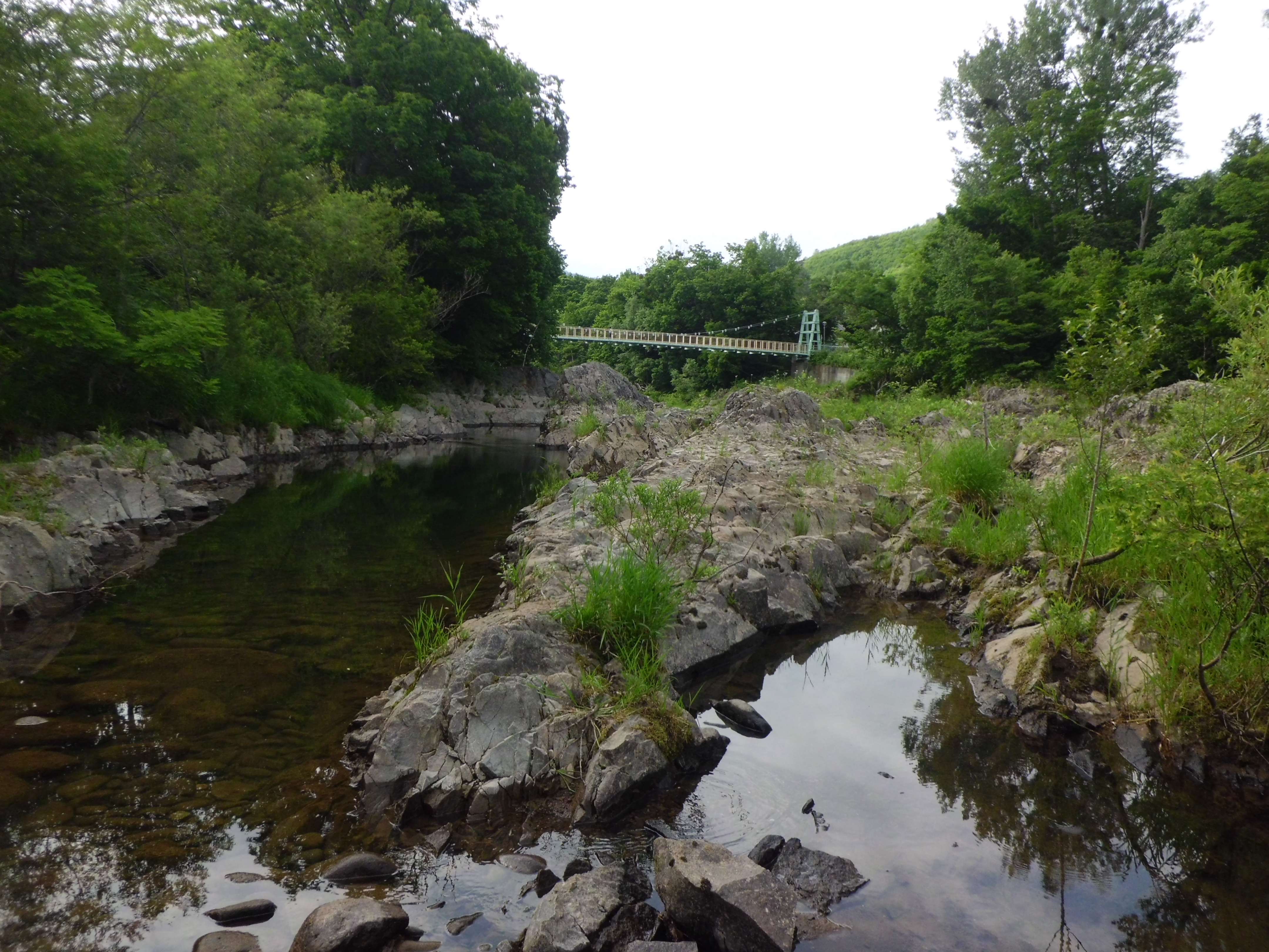 Toyohira River at Jugoshima Park